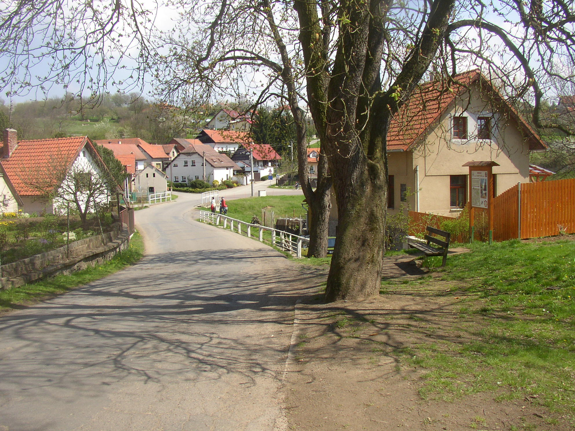 Hrusice, Prague-East District, Czech Republic. A view from centre of the village over valley of the Hrusický potok stream towards ENE. Right of the road there is house No 15 with a plaque from 1958 on the wall (left of the closest corner) commemoraing that Josef Lada was born here. The original house was replaced with a newer edifice in 1932.